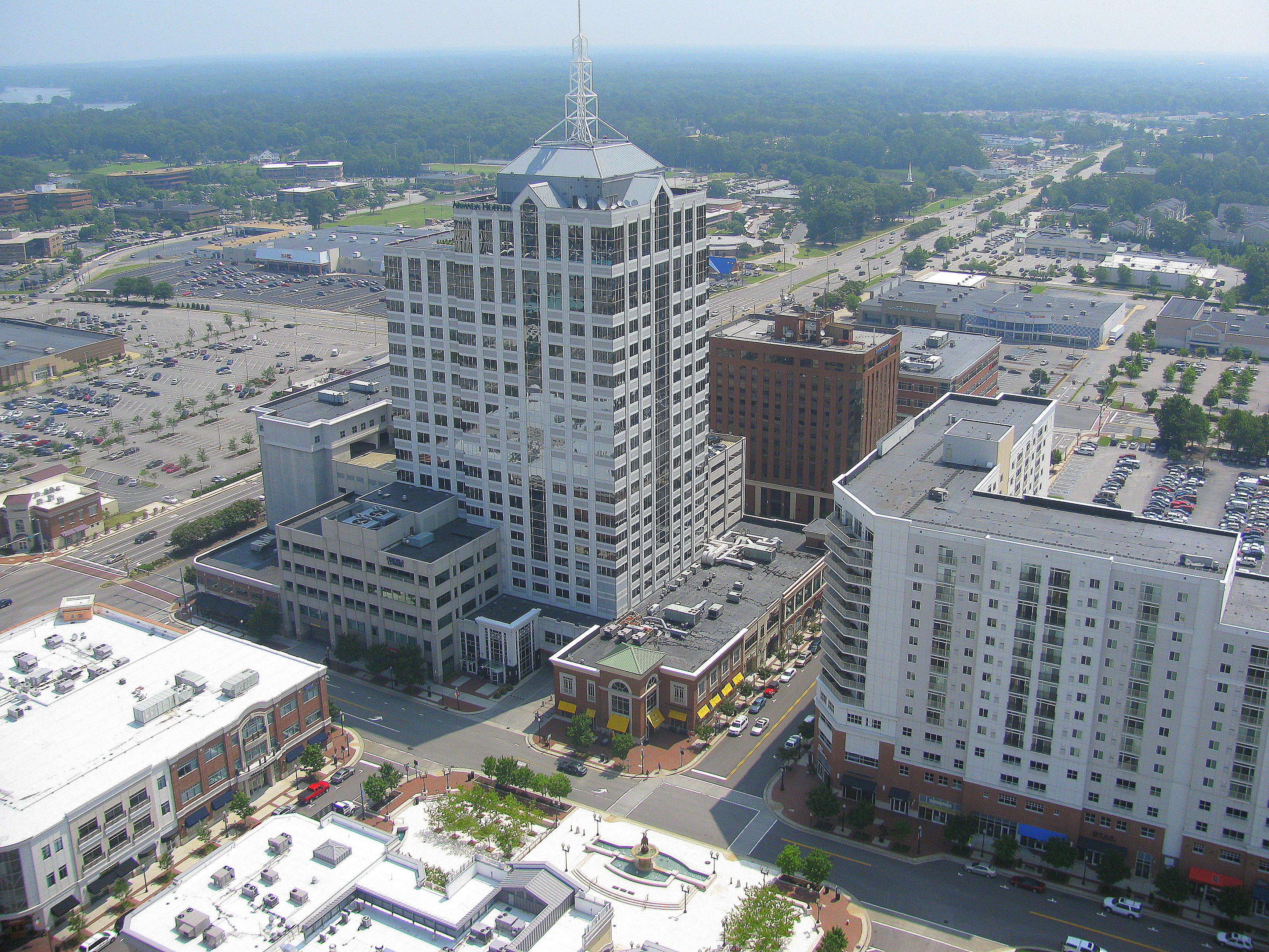 Photo of Virginia Beach's Town Center taken from the penthouse at the Westin. The Tallest Building is the Armada Hoffler Tower, the second-tallest building in Virginia Beach.